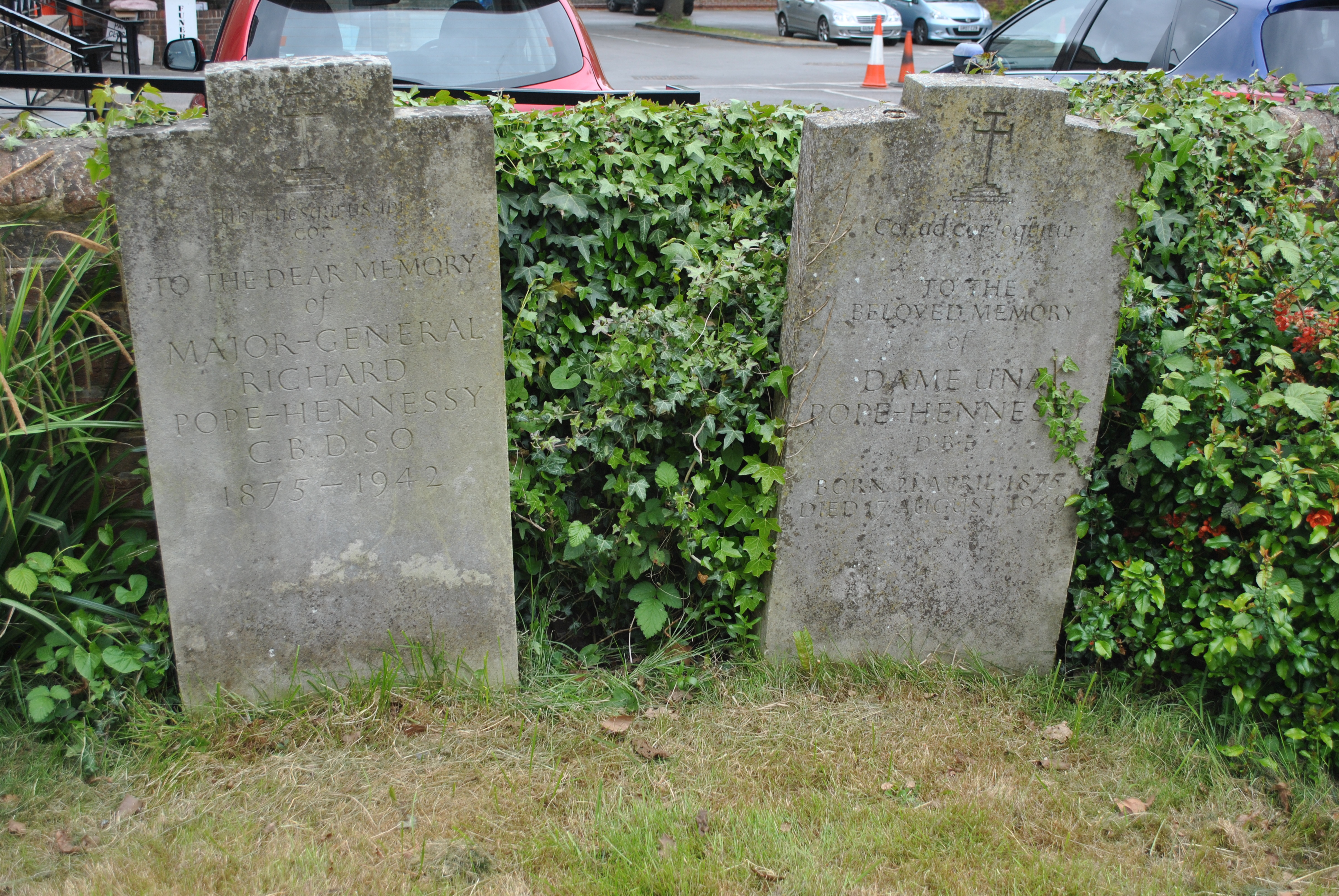 Friary Churchyard of St Francis and St Anthony, Crawley, 2017, Originally published in Queer Places, Vol. 2.1: Retracing the Steps of LGBTQ people around the World